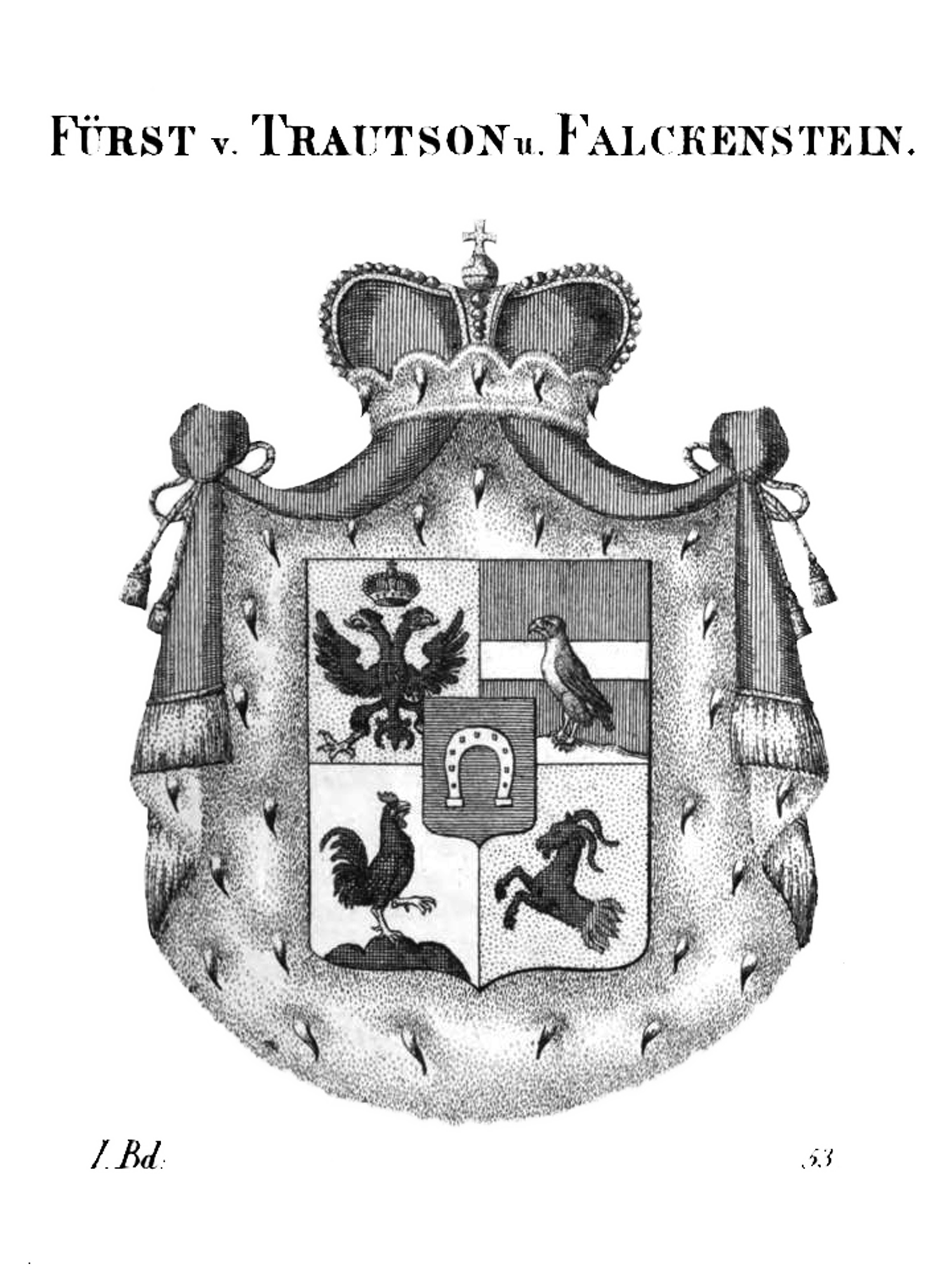 Coat of Arms of Trautson und Falckenstein (Prince)